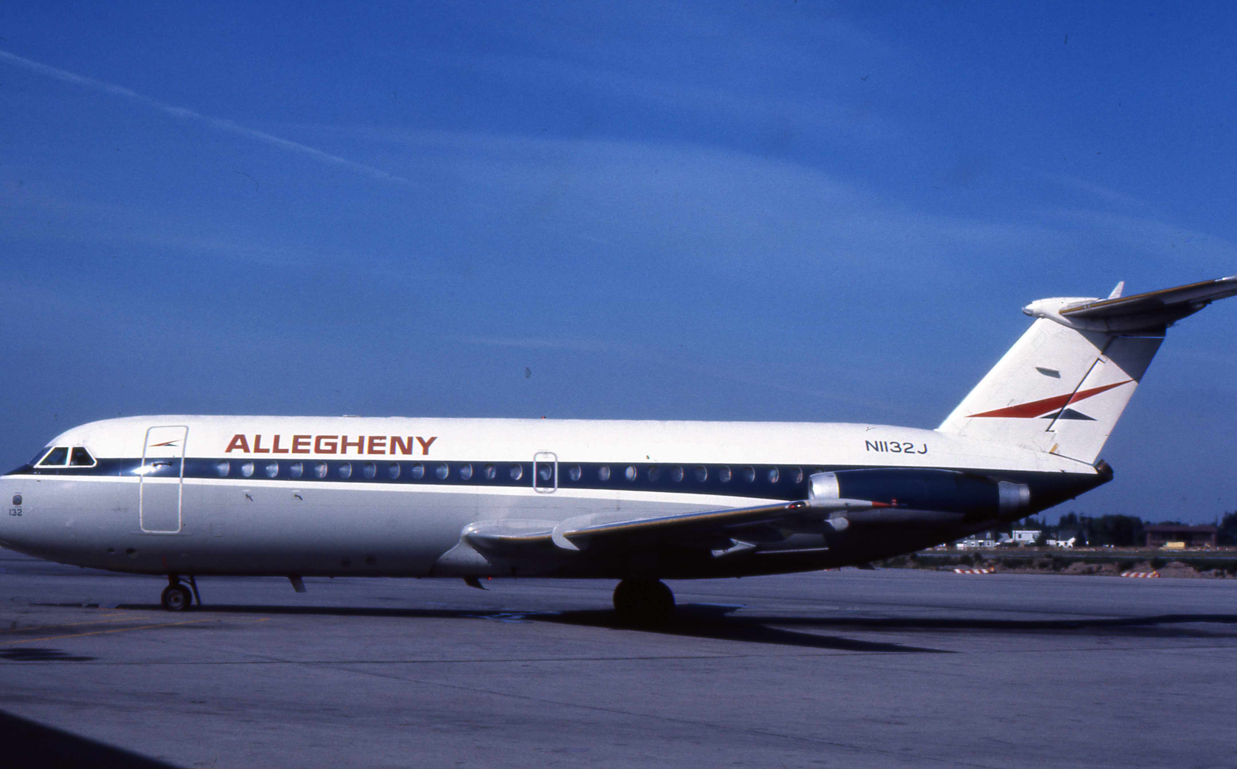 Allegheny Airlines BAC 1-11 215AU, c/n 105. Delivered to Aloha Airlines as N11183 on May 31, 1967. Sold to Mohawk then merged with Allegheny Airlines.